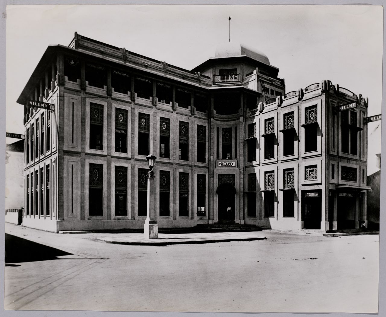 Kantoorgebouw Nillmij, Semarang, Nederlands-Indië. Architect: J.F. van Hoytema. Fotograaf: onbekend. Collectie NAi / TENT_o404 URL van deze afbeelding: Meer foto's uit deze collectie kunt u bekijken in de Collectiedatabase van het NAi. Niet van alle gebouwen en interieurs zijn alle gegevens bekend. Heeft u meer informatie of weet u het adres van een gebouw? Laat dan een reactie achter (als u ingelogd bent bij Flickr) of stuur een mailtje naar: Al deze foto's zijn gemaakt in de eerste helft van de twintigste eeuw. Wij zijn benieuwd hoe deze gebouwen er vandaag de dag uitzien. Heeft u recente foto's van deze gebouwen of locaties, voeg ze dan toe als commentaar. U kunt een eigen Flickr-foto toevoegen door de URL ervan tussen vierkante haken in het commentaarveld te plakken. Als uw foto's een Creative Commons licentie hebben, nemen we ze bovendien graag op in de NAi Collectiedatabase. Nillmij Office Building, Semarang, Dutch East Indies. Architect: J.F. van Hoytema. Photographer: unknown. NAI Collection / TENT_o404 Persistent URL: For more photographs from this collection, please visit the NAI Collection Database You can help us gain more knowledge on the content of our collection by adding a comment with information. If you do not wish to log in, you can write an e-mail to: All these pictures are taken in the first half of the twentieth century. We are curious to learn how these buildings look like today. If you have recently taken photographs of these buildings or locations, please add them to your comment. If you'd like to include a Flickr photo, simply copy and paste its URL between square brackets in the commentary-field. Photos with a Creative Commons licence may be used to illustrate the NAi Collection Database.